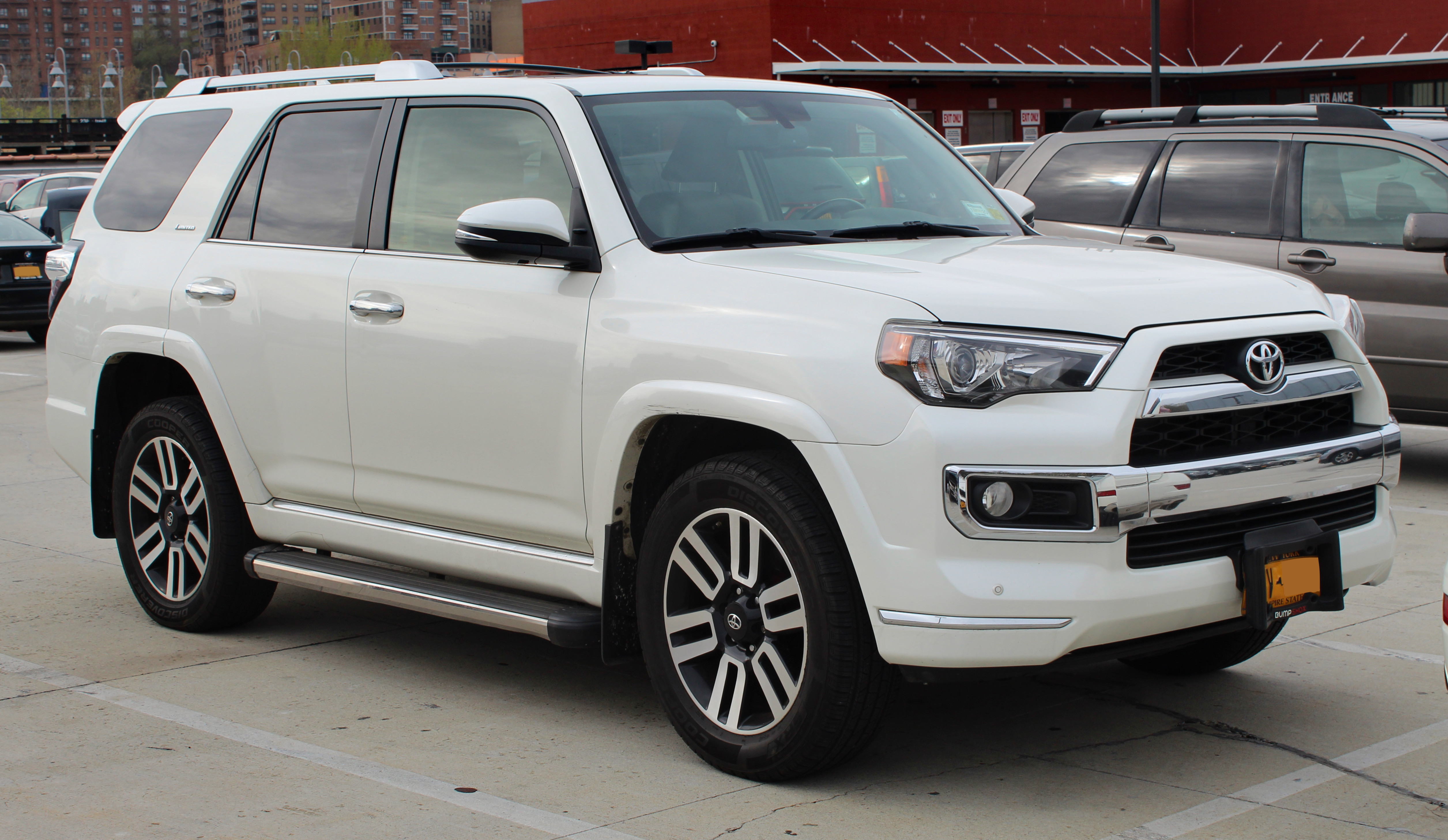 A 2014 Toyota 4Runner Limited photographed in Bronx, New York, USA